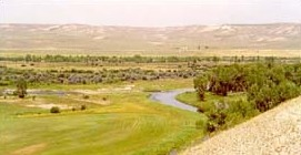 Overview of the Upper Green River Rendezvous Site, a National Historic Landmark located along the Green River near Daniel in Sublette County, Wyoming, United States. The site is recognized as the location of several meetings of mountain men in the first half of the nineteenth century.